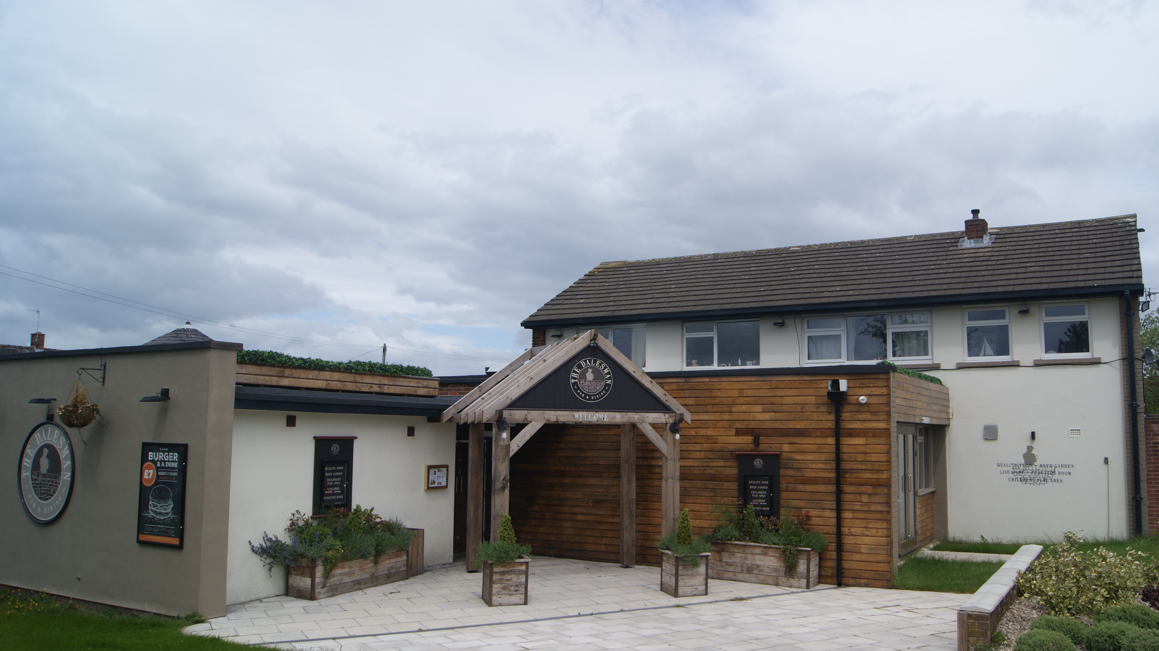 The Dalesman, Butcher Hill, Moor Grange, Leeds, West Yorkshire temporarily closed due to the COVID-19 pandemic. Taken on the afternoon of Saturday the 23rd of May 2020.